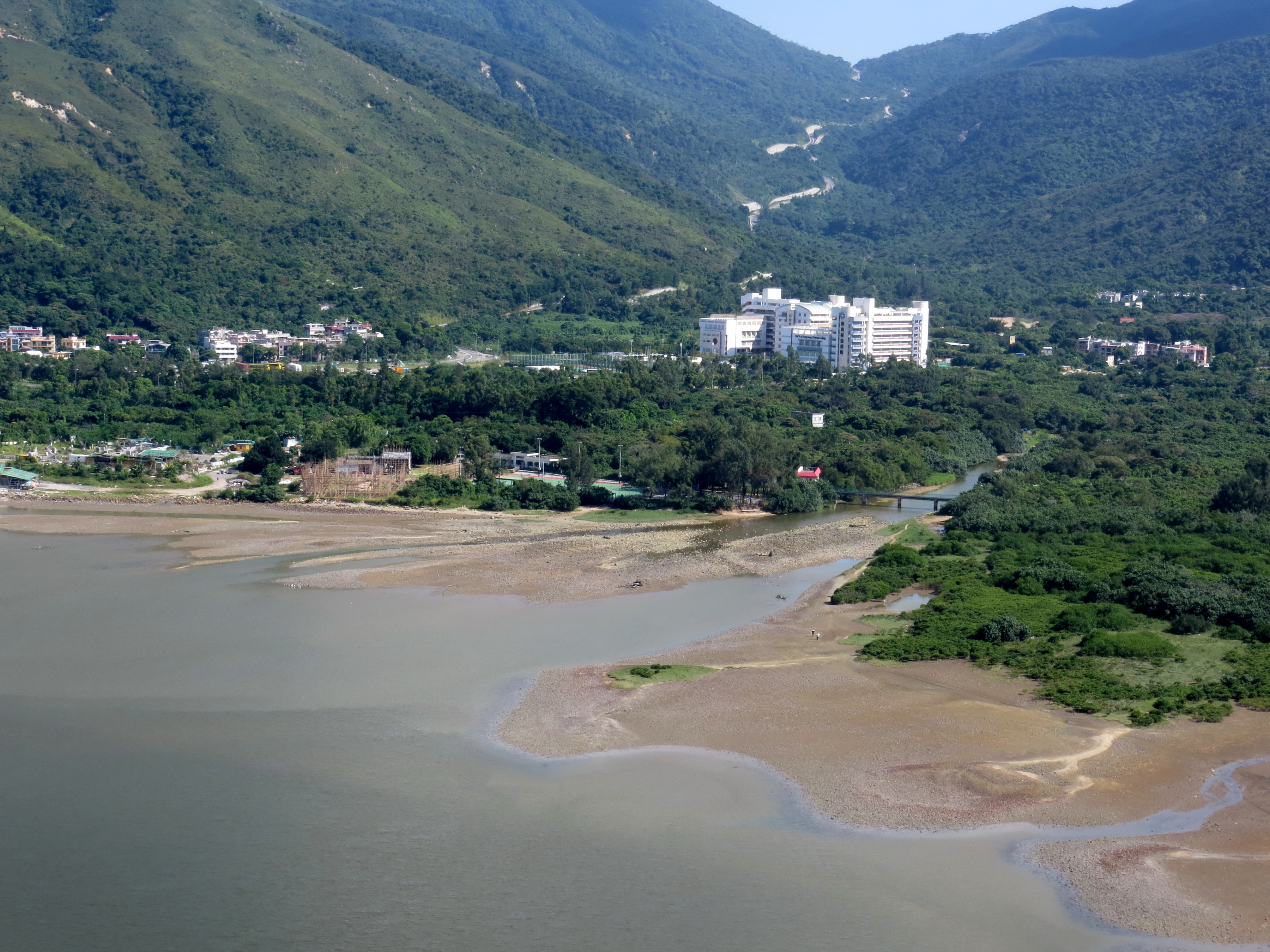 Tung Chung River, Tung Chung, New Territories, Hong Kong.